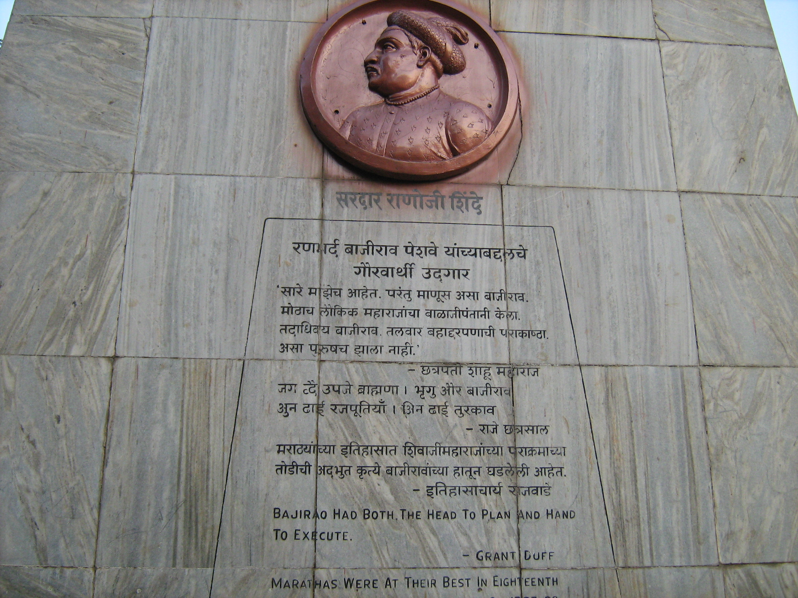 A plaque outside Shaniwar Wada in Pune. H.H. Shrimant Sardar Ranoji Shinde (Scindia) Bahadur, Subedar of Malwa, Prince of Gwalior, was the founder of princely State of Gwalior. 'Sardar' is a title used by the Maratha nobility in Gwalior State. It is a title used by the most senior Mahratta nobles